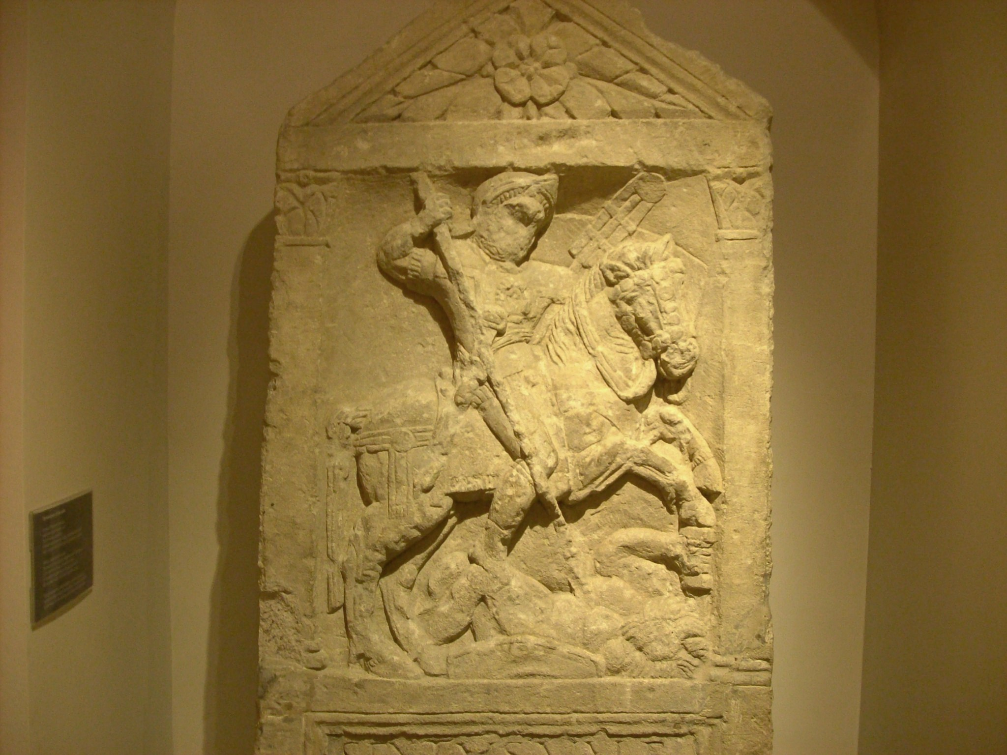 Gravestone of a Roman cavalryman, Corinium Museum